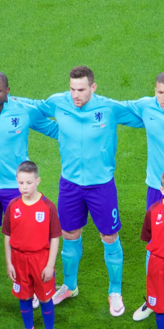 Netherlands starting XI